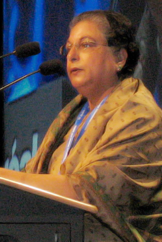 Hina Jilani, United Nations Special Representative of the Secretary General on Human Rights Defenders, addressing the Asia/Pacific plenary of the International Conference on LGBT Human Rights in Montreal, 28 July 2006